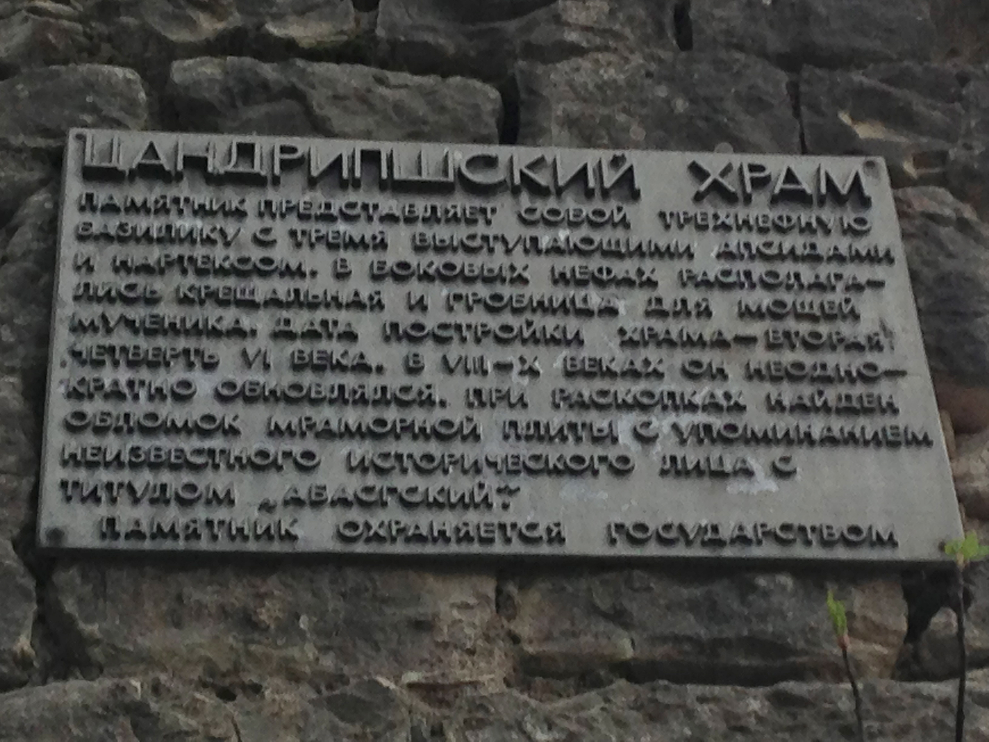 Gantiadi Basilica, Abkhazia, Georgia 543 AD